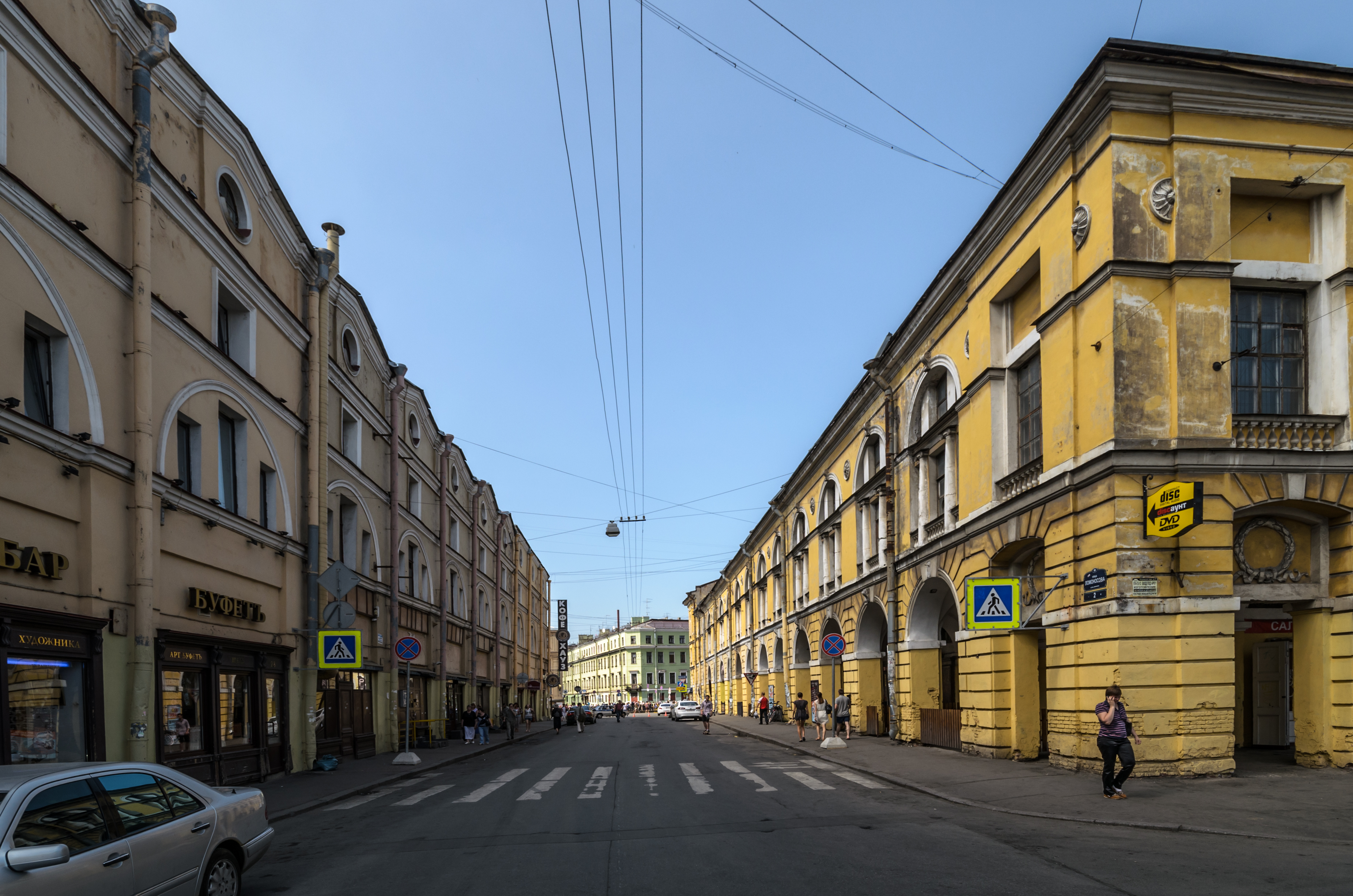 Lomonosova Street in Saint Petersburg